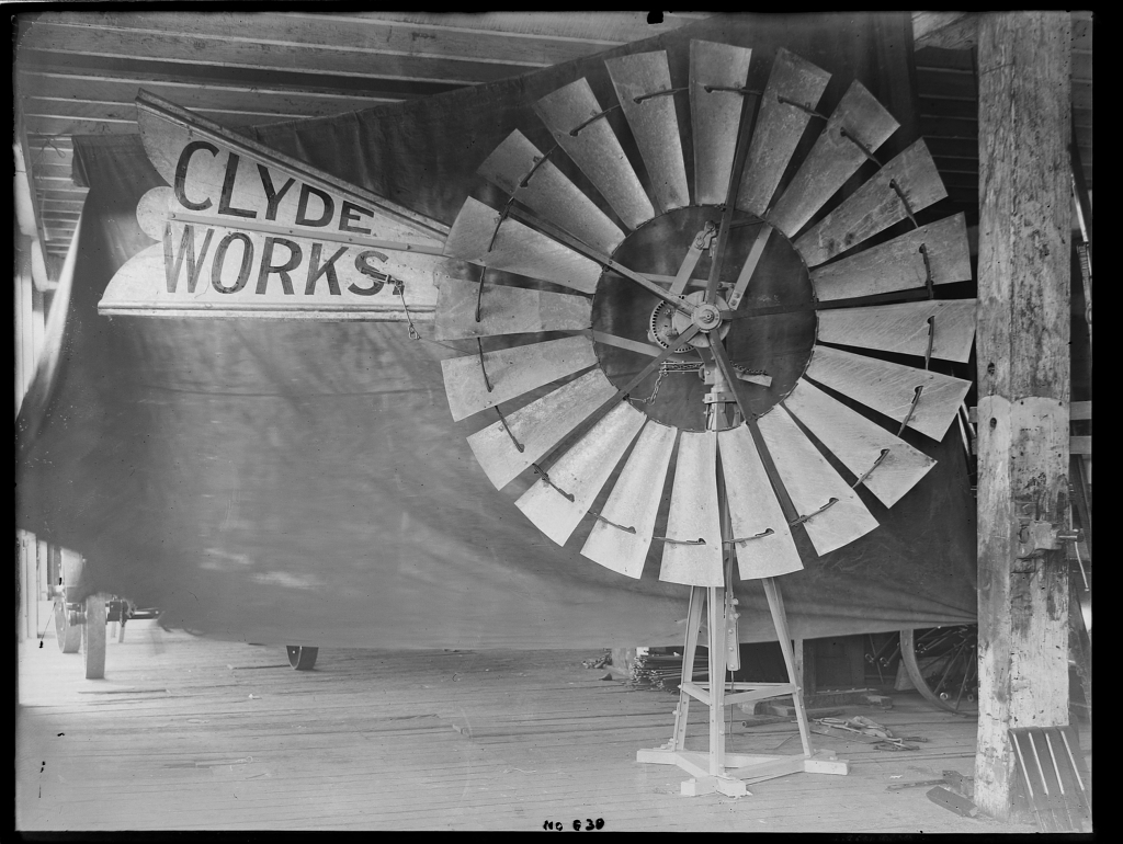 Aeolus geared windmill from the Powerhouse Museum